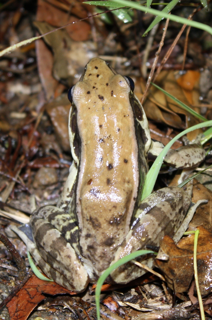 Taken in Sai Kung East Country park.